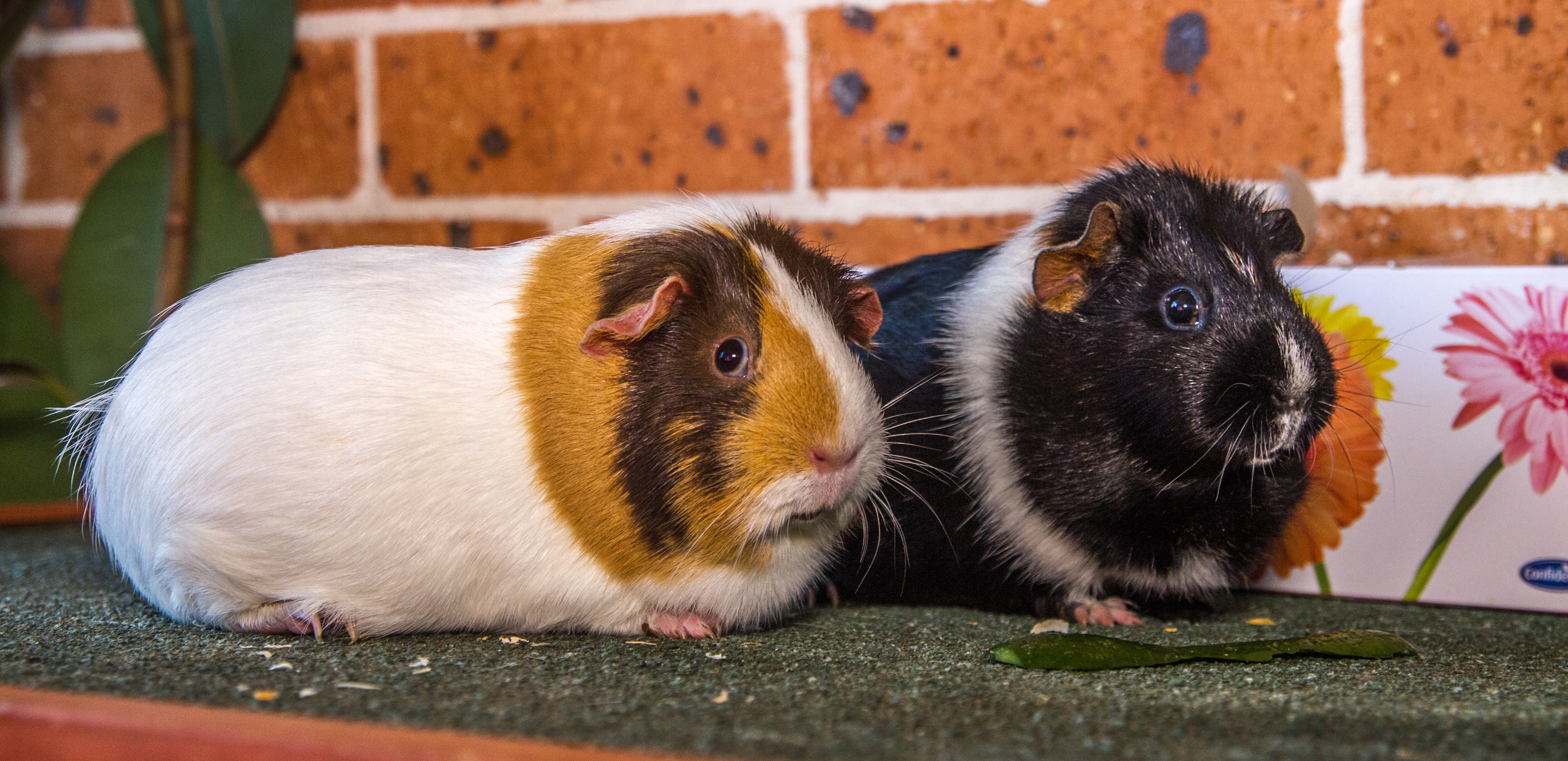 Guinea pigs